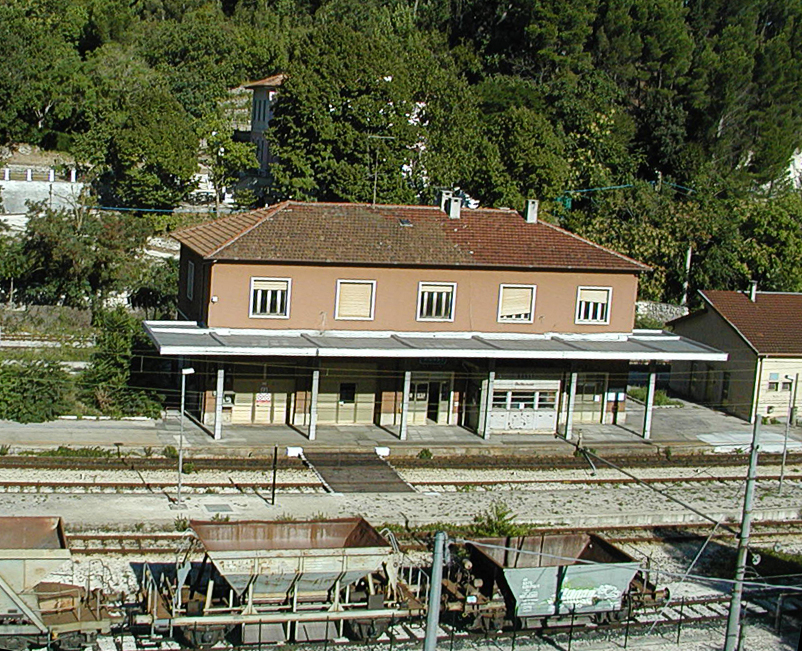 Bussi railway station